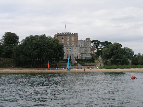 Brownsea Castle, Poole Harbour, Dorset, England, UK. GFDL permission granted by Emily Hanson on 17 June 2007.